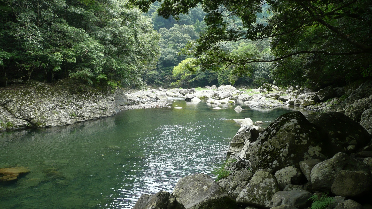 Honjo River (Aya Town, Miyazaki, Japan)